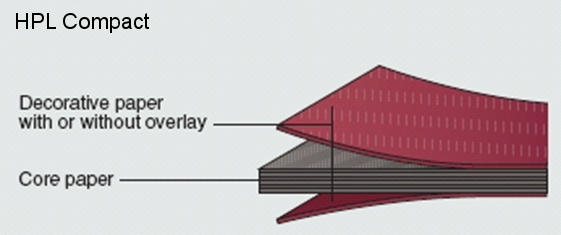 Composition of HPL compact